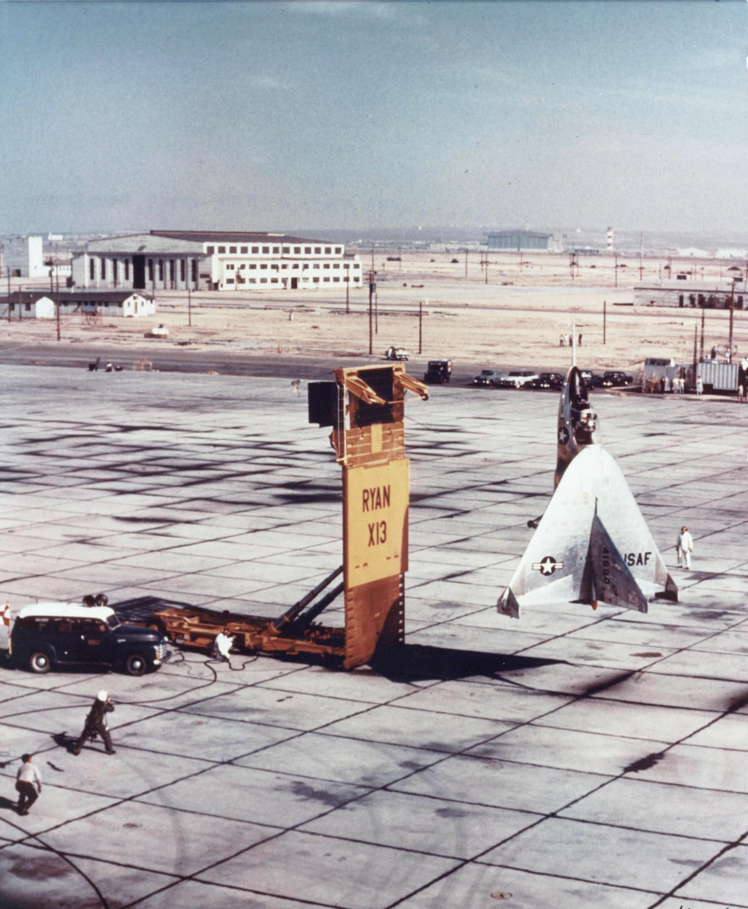 Ryan X-13 Vertijet being tested ca. 1957